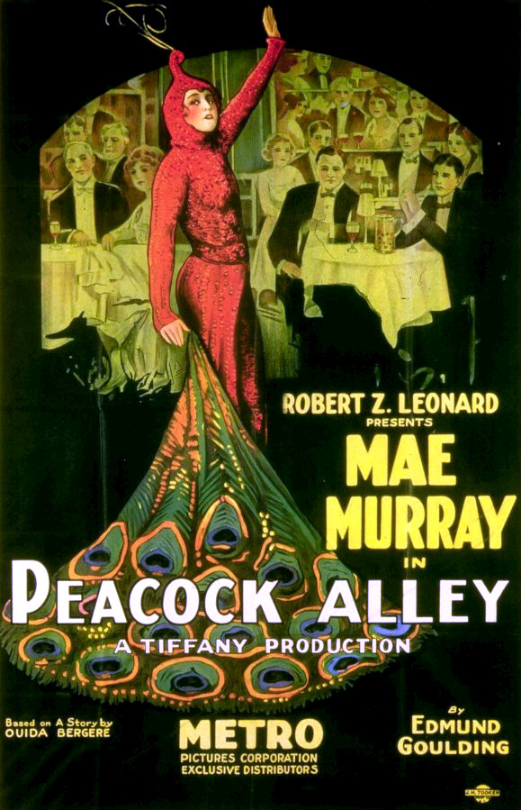 Poster for the American film Peacock Alley (1922) with Mae Murray.